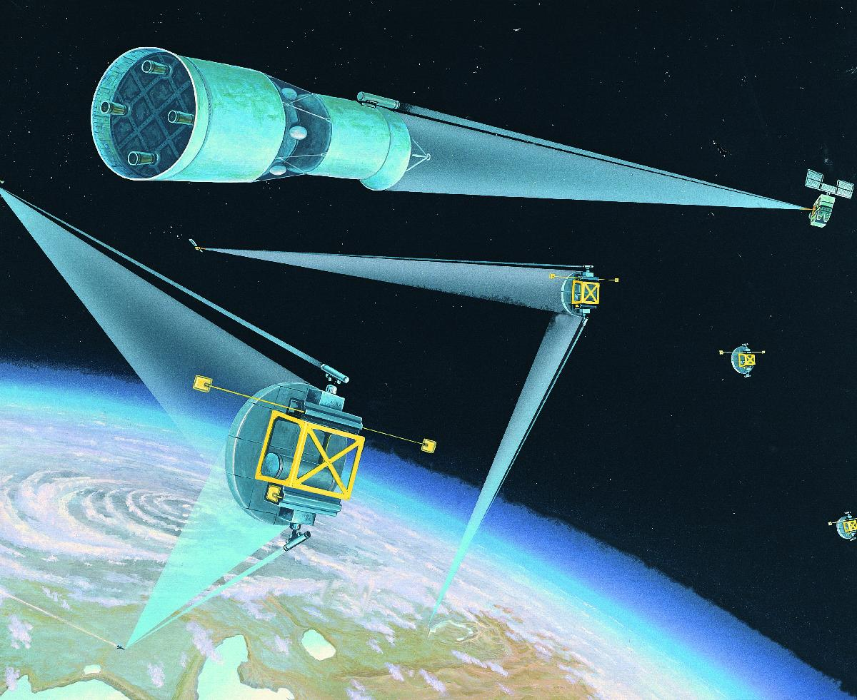 SOVIET SPACE-BASED STRATEGIC DEFENSES While publicly opposed to the US Strategic Defense Initiative, the Soviet Union forged ahead with research and development of land-, air-, and space-based ballistic missile defenses. The Soviets had already deployed and tested ground-based lasers.